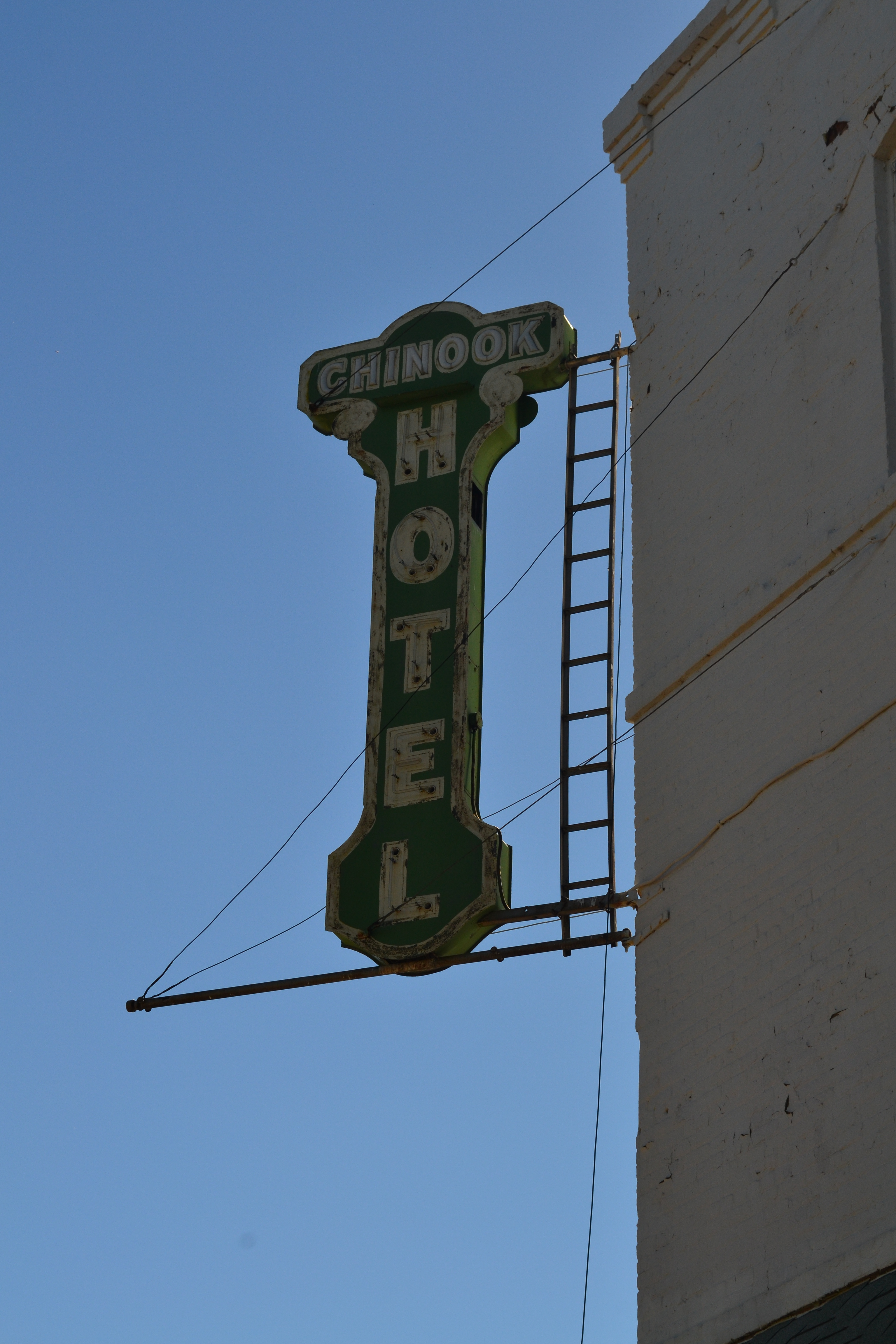 Chinook Hotel in Chinook Montana